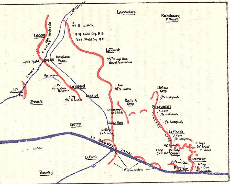 Positions of the 55th (West Lancashire) Division at midnight on 9 April 1918 (red line). Blue line denotes sector boundary